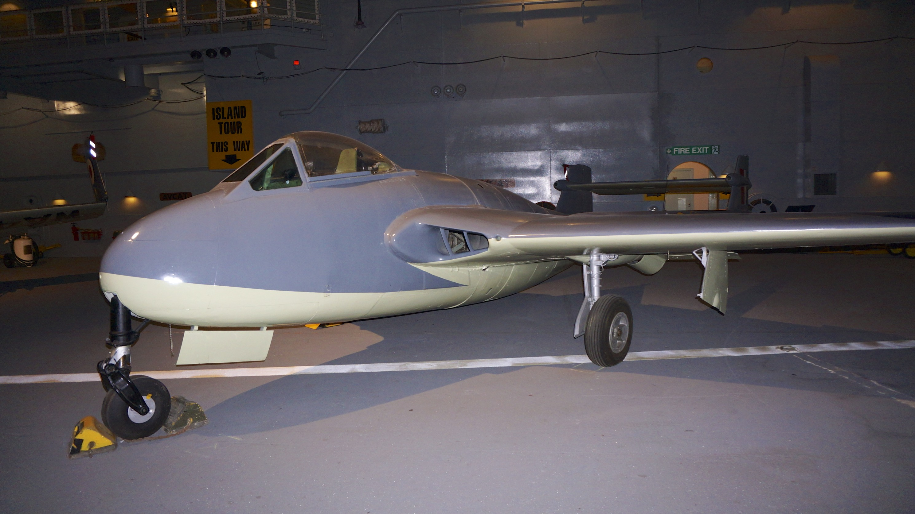 Royal Navy. Fleet Air Arm Museum . Yeovilton. Somerset. UK De Havilland Sea Vampire prototype - the first jet to land on an aircraft carrier.